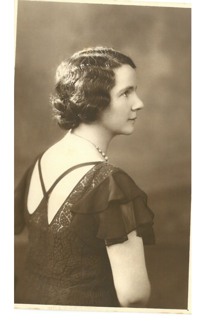 Daisy Marchisotti, aged 18